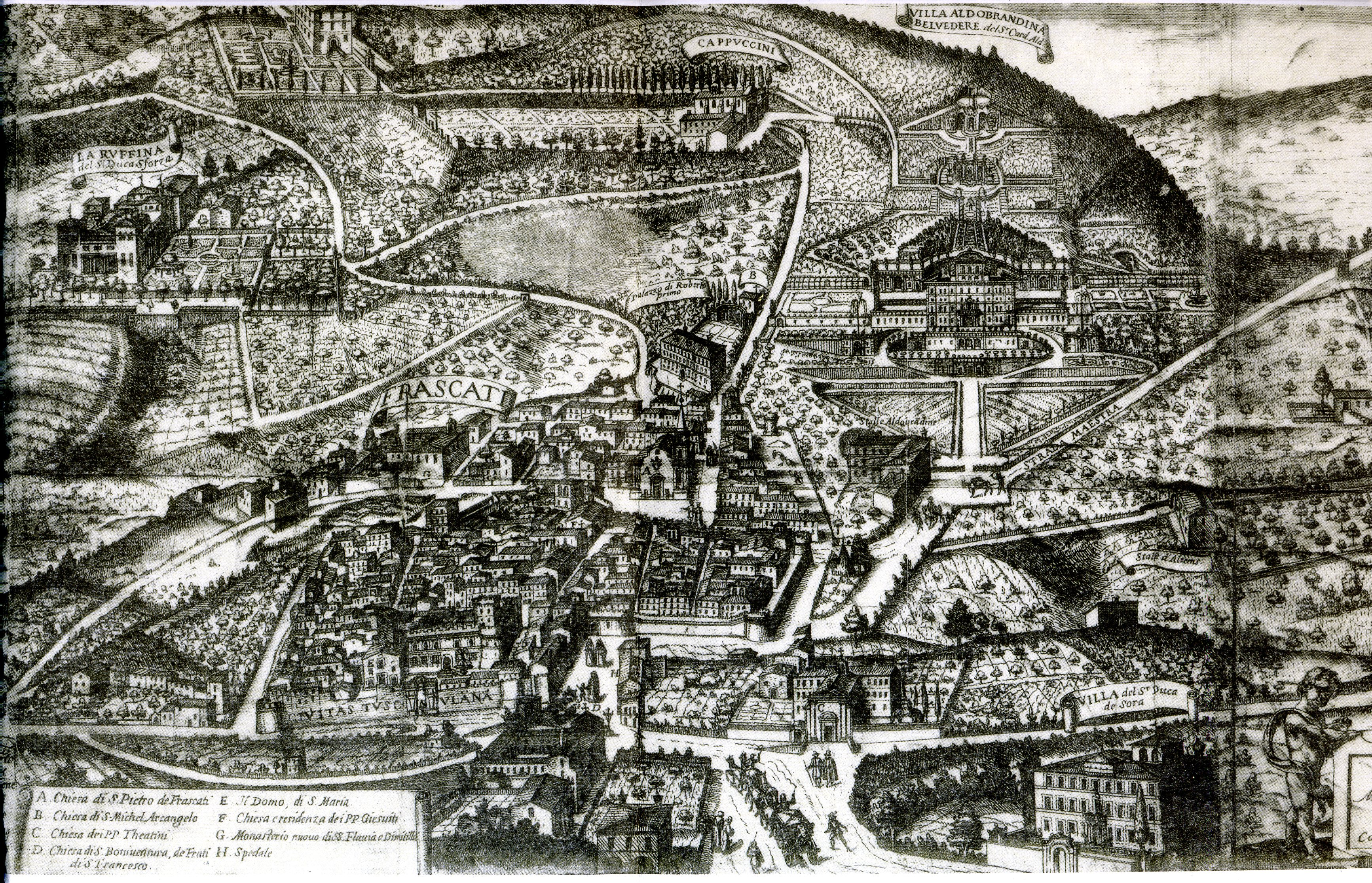 Photo of this old print (more 100 years) taken by the author Luiclemens